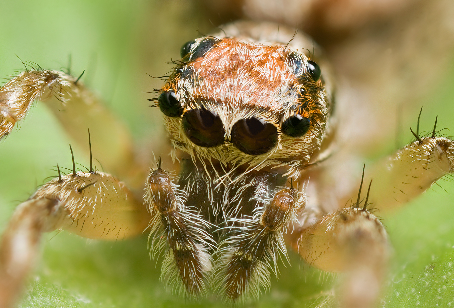 Clynotis severus, Female, Austin's Ferry, Tasmania, Australia